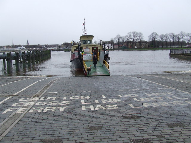 Renfrew Ferry. Viewed from the Yoker slip on the north bank of the Clyde. See the same scene at night here 651270.